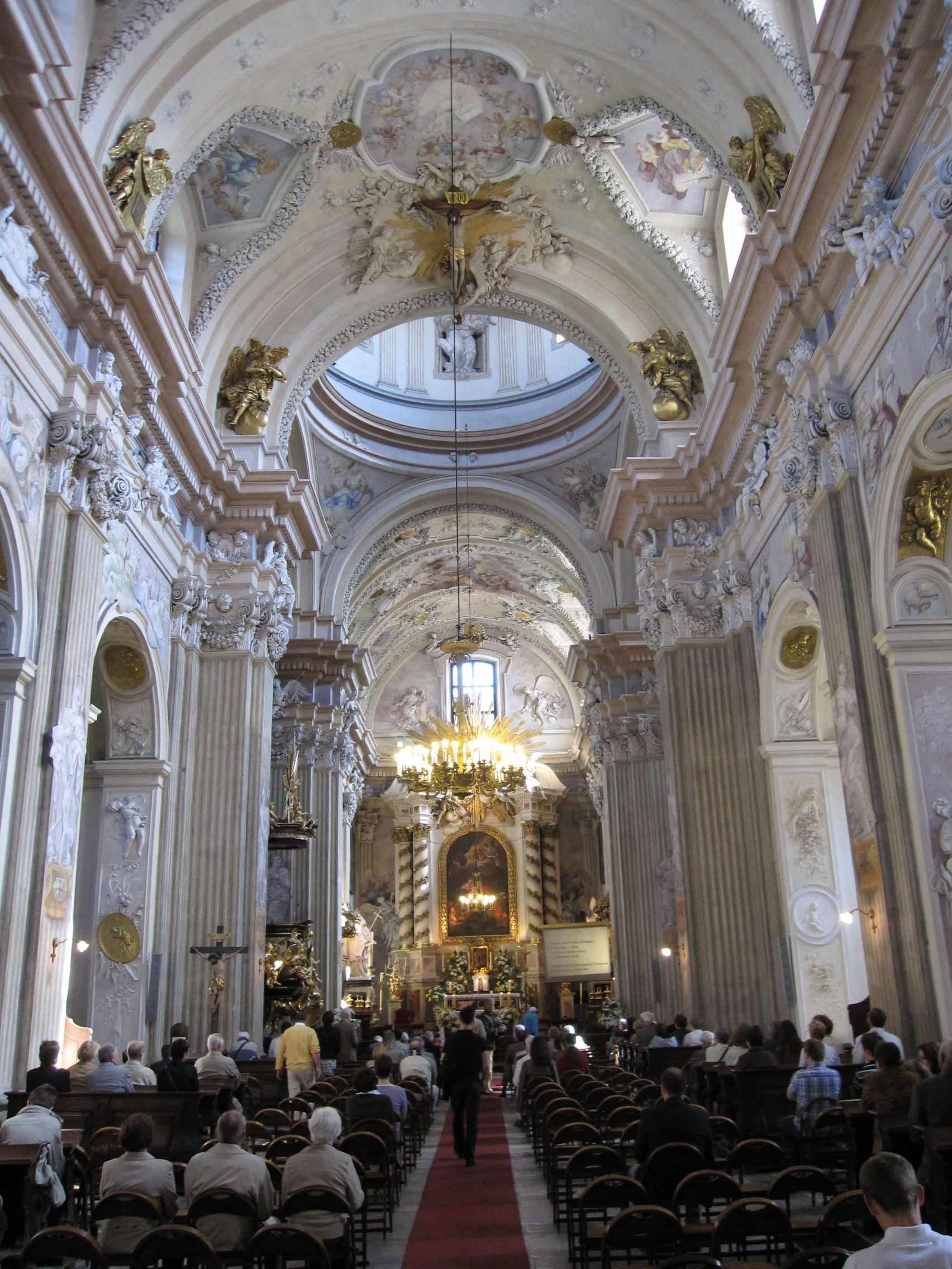 Interior of the Church of St. Anne in Krakow.